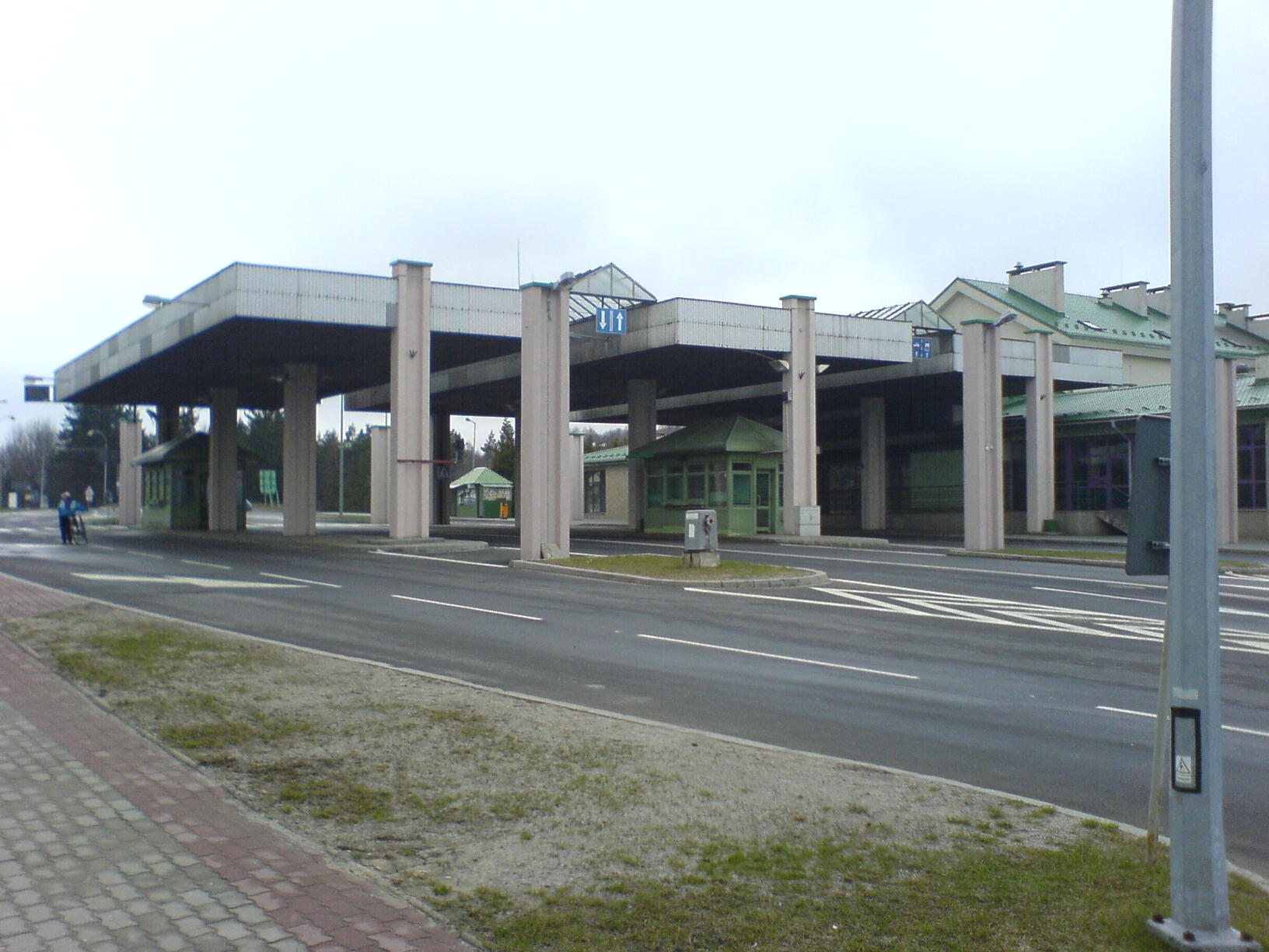 Already non-existent Polish-Slovak border crossing with European routes E371. Polish side - Barwinek